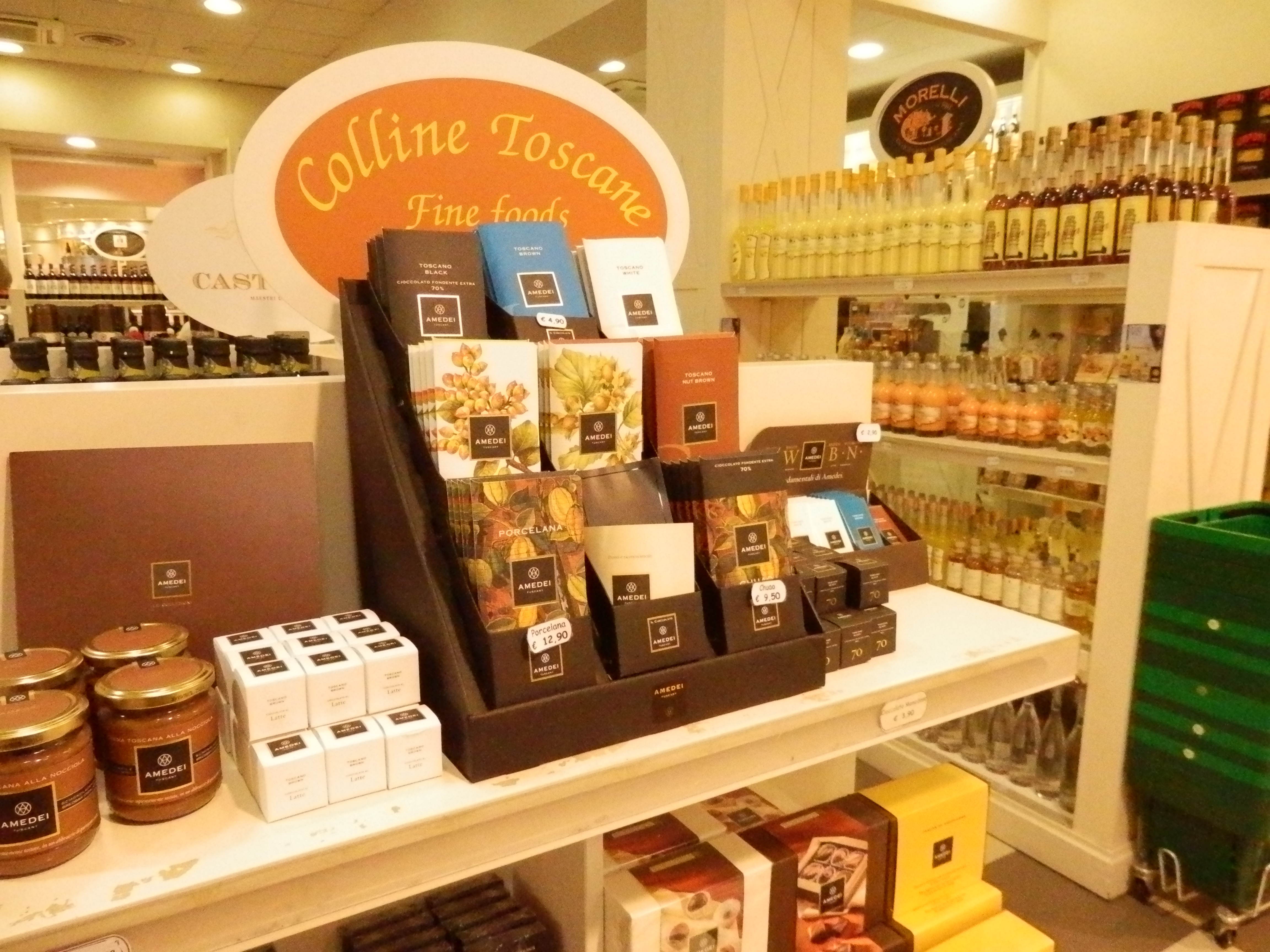 Amidei chocolates in a shop at the airport in Pisa